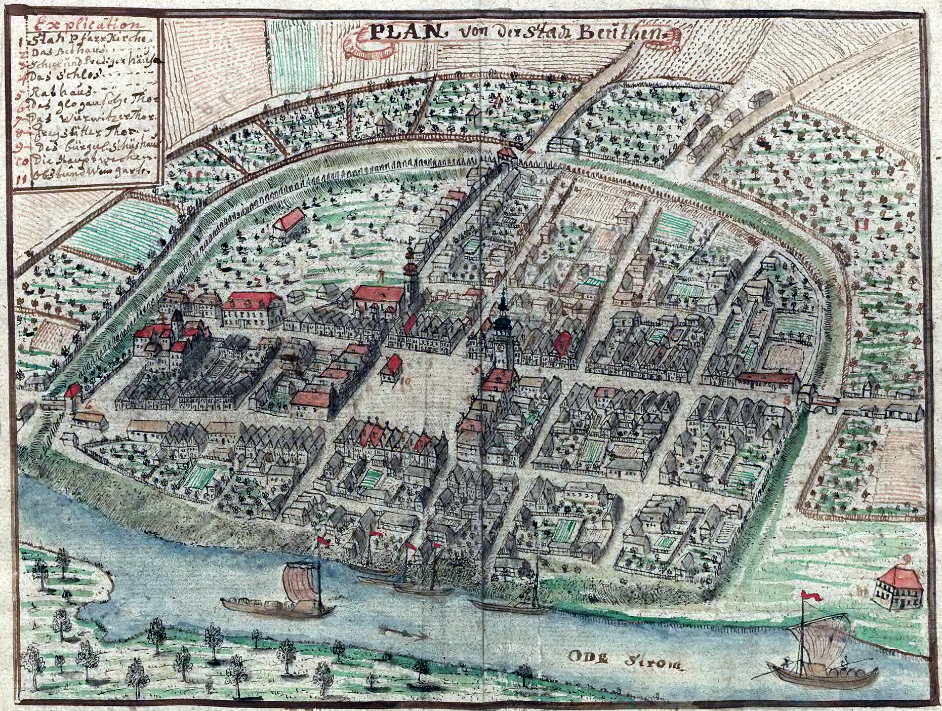 View of the city of Bytom Odrzański.